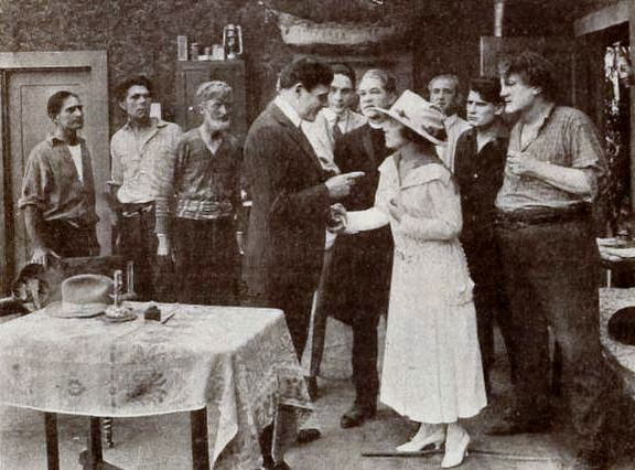 Still from the American comedy film The Spindle of Life (1917) with Ben F. Wilson and Neva Gerber, on page 30 of the September 29, 1917 Exhibitors Herald.